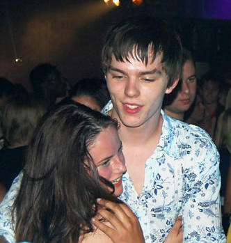 Nicholas Hoult & Kaya Scodelario On The Stage in Skins Party 2007.